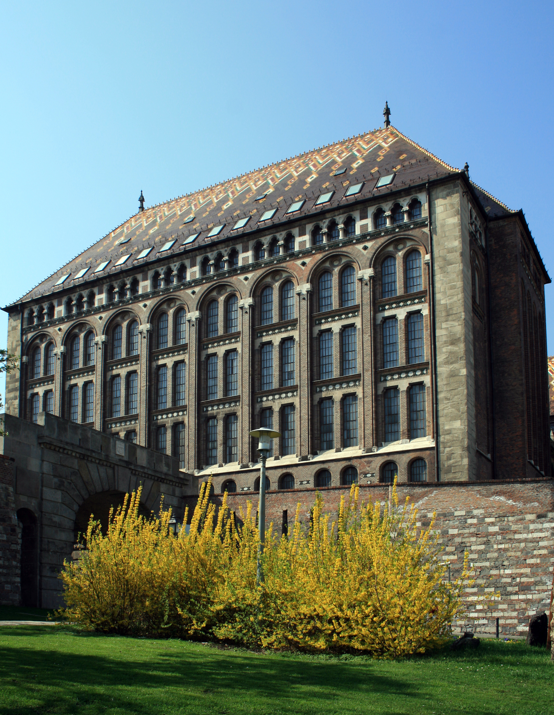 State Archiv of Hungary in the Castle of Buda, Budapest, Hungary